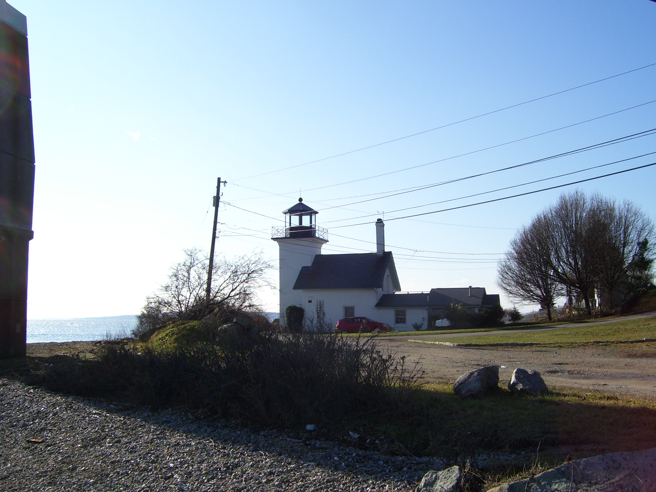 This is my 2008 photo of the Bristol Ferry Light in RI.